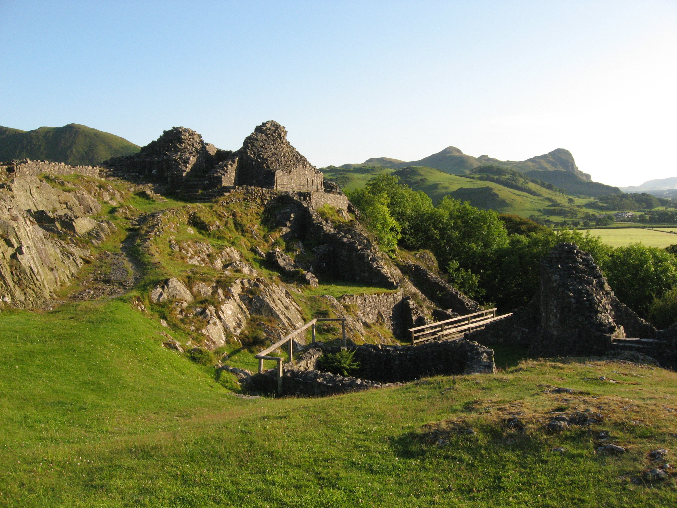 Castell y Bere, with Birds' Rock in the distance